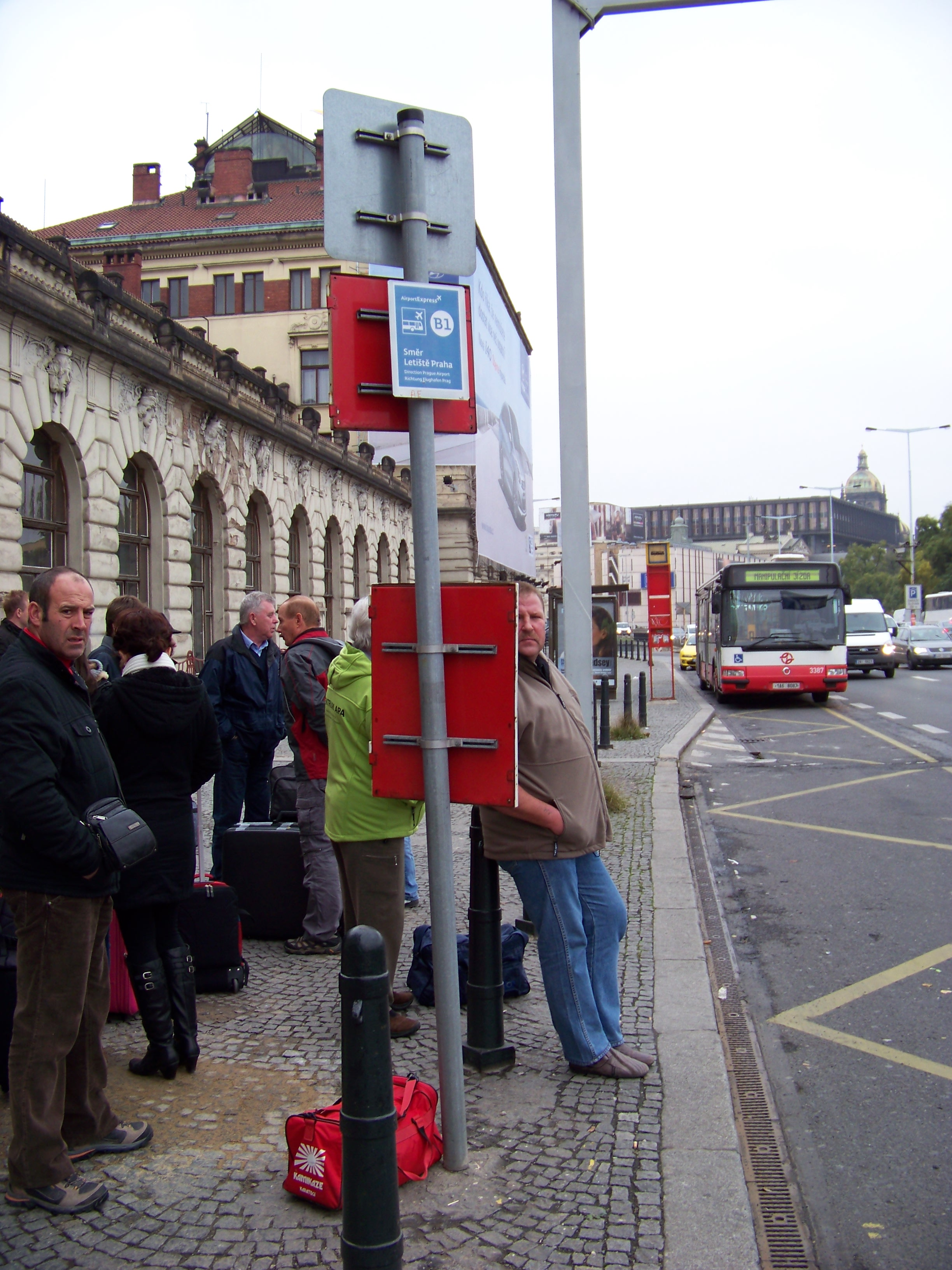 Prague-Vinohrady, the Czech Republic. Wilsonova street, Praha hlavní nádraží (Prague Main Train Station), Fanta's Building, a bus stop of Airport Express.